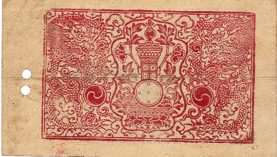 Tibetan 5 srang banknote, udated, backside